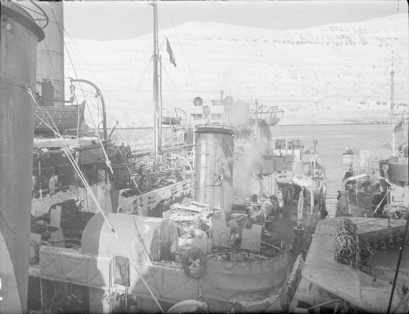 HMS Fury, refueling from an oiler in Iceland